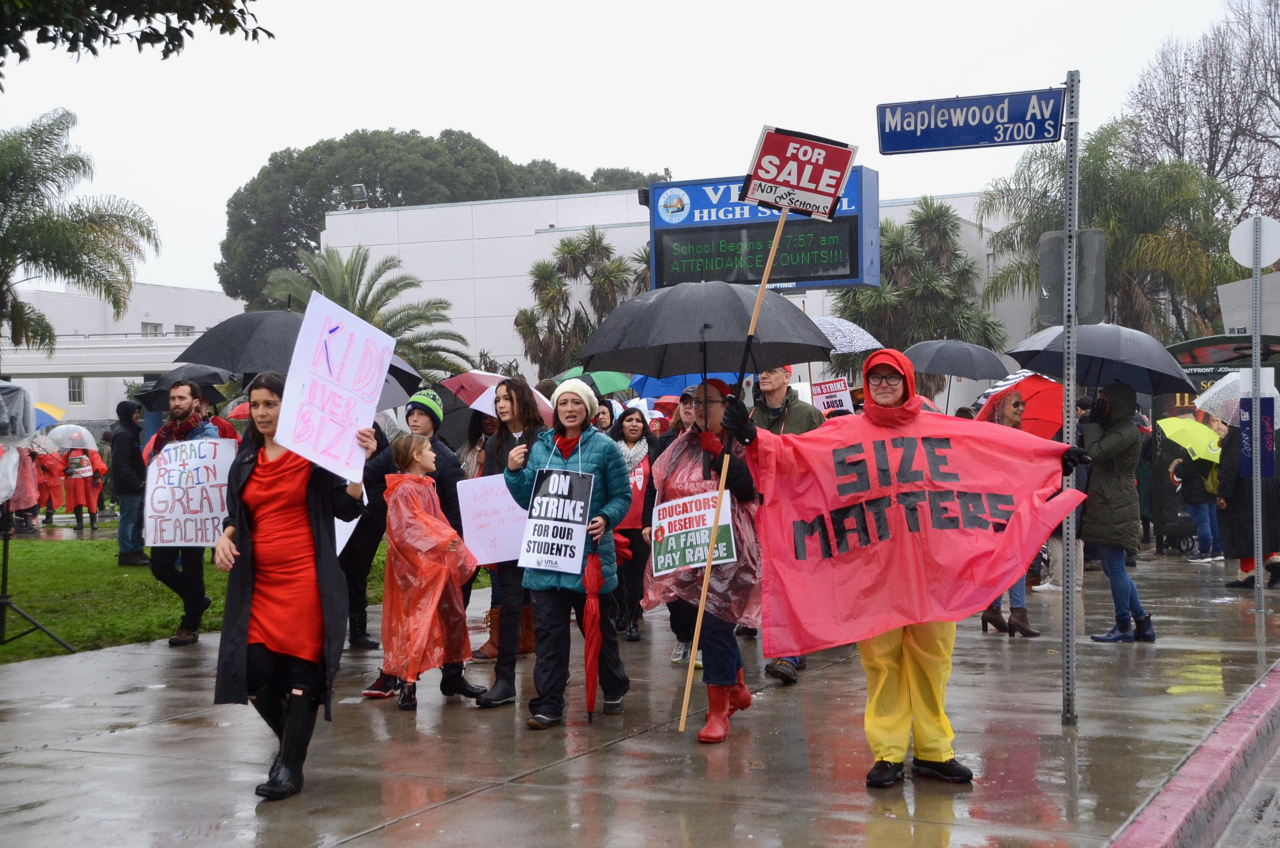 Jan. 17, 2019, Venice HS. Day 4 of UTLA Strike. Photo credit: Mike Chickey